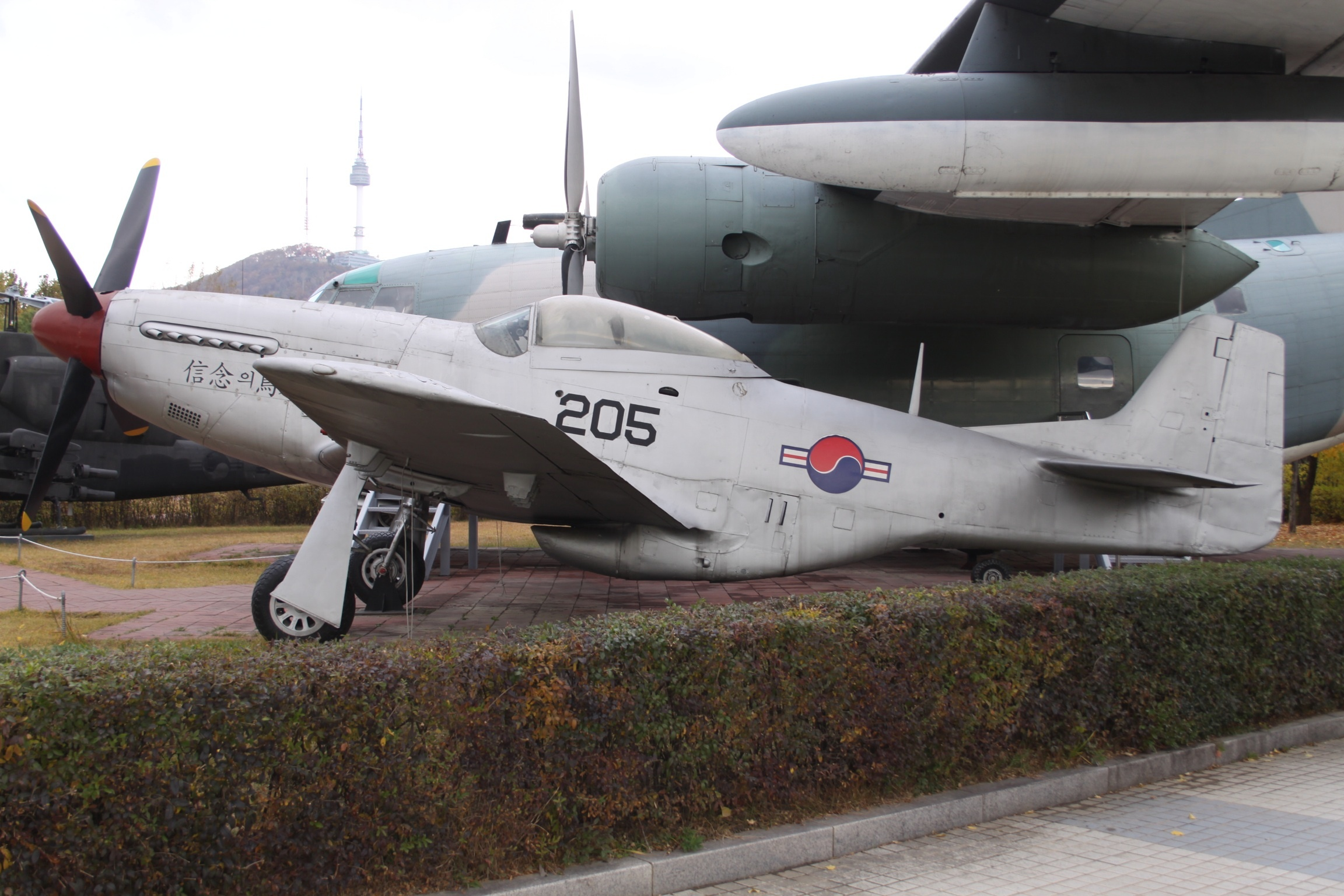 At War Memorial Museum - Seoul - Republic of Korea